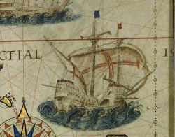 Caraque portugaise from the Miller Atlas (Lopo Homem-Reineis Atlas) ca. 1519, Paris, Bibliothèque Nationale, DD640 et al.